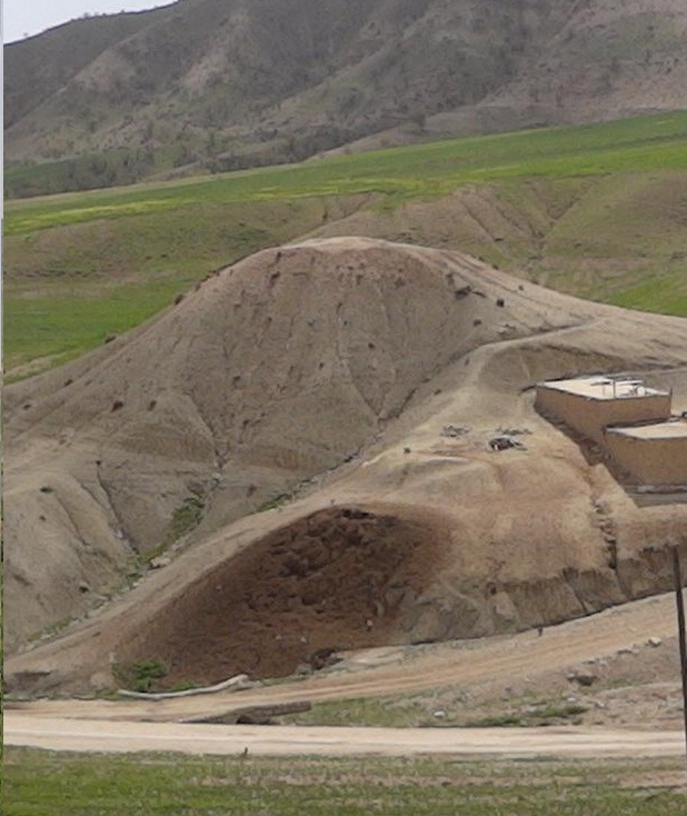 تپه مورت سبز